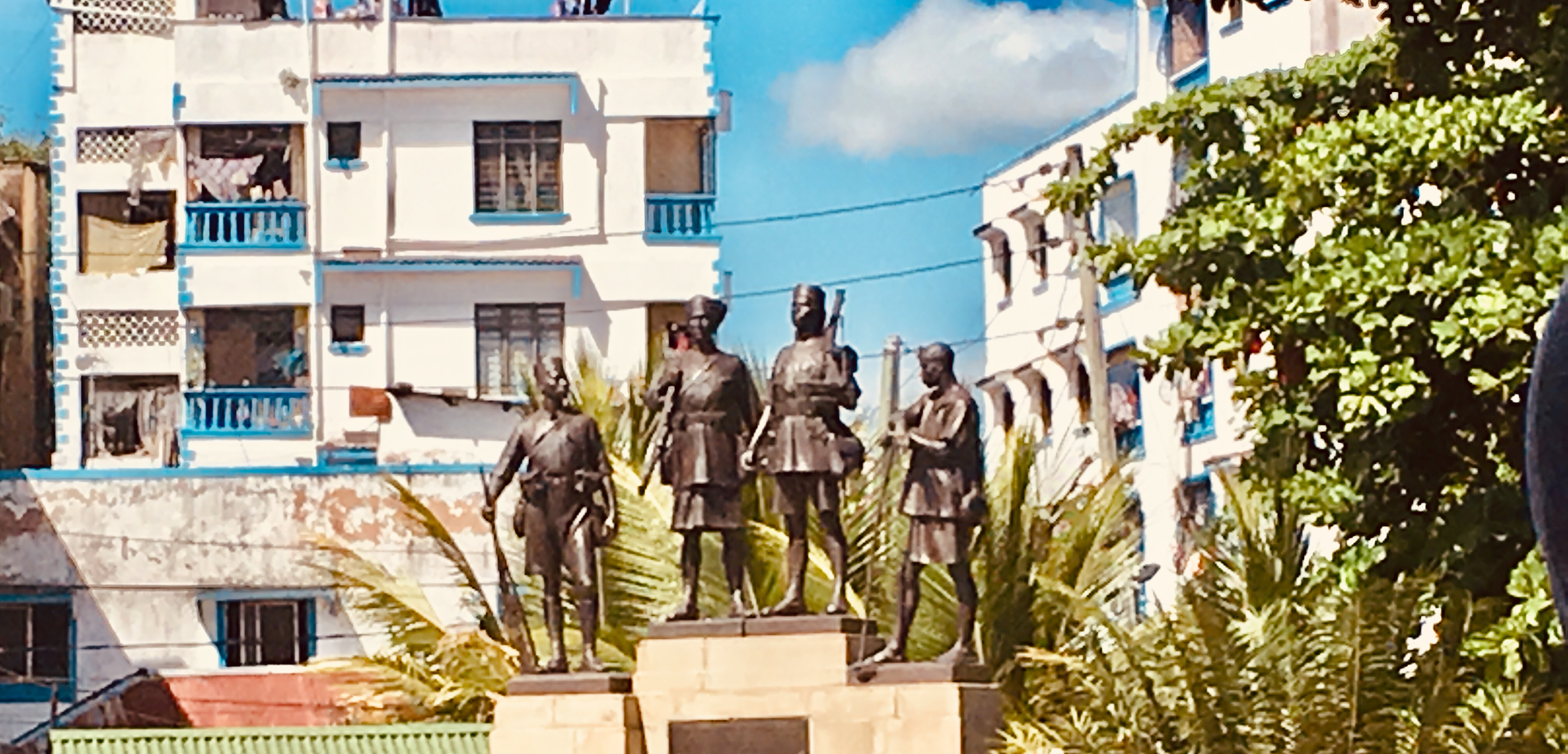 This is an image with the theme "Africa on the Move or Transport" from: Kenya